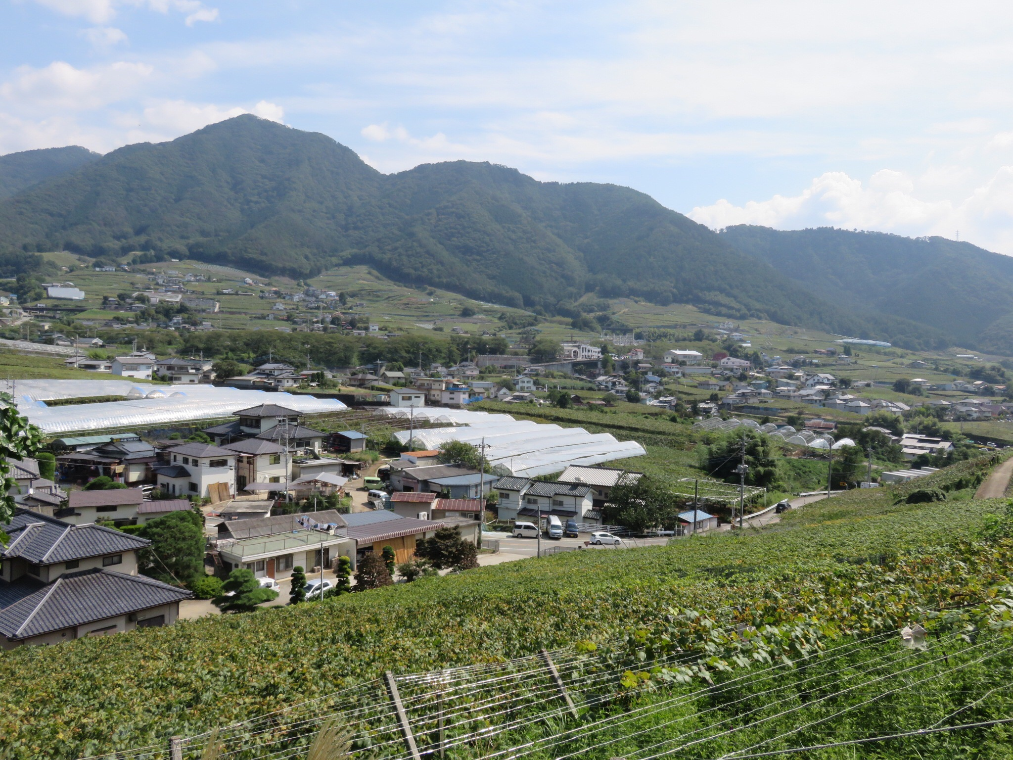 Katsunuma, Yamanashi